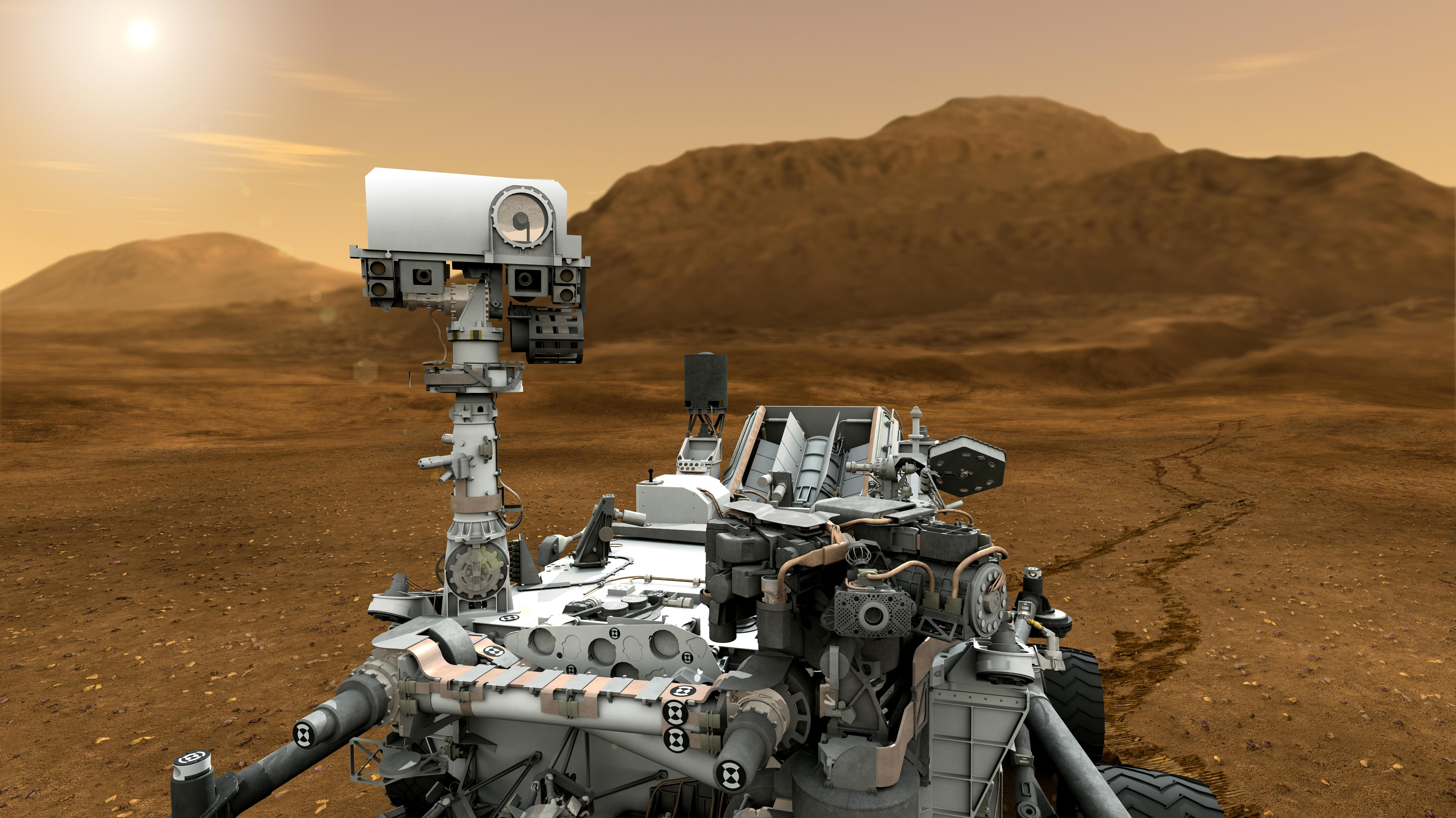 This artist concept features NASA's Mars Science Laboratory Curiosity rover, a mobile robot for investigating Mars' past or present ability to sustain microbial life. In this picture, the mast, or rover's "head," rises to about 2.1 meters (6.9 feet) above ground level, about as tall as a basketball player. This mast supports two remote-sensing instruments: the Mast Camera, or "eyes," for stereo color viewing of surrounding terrain and material collected by the arm; and, the ChemCam instrument, which is a laser that vaporizes material from rocks up to about 7 meters (23 feet) away and determines what elements the rocks are made of.